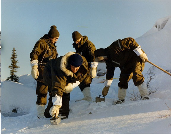 Operation Morning Light. Team members, dressed in specially designed arctic clothing, begin the painstaking process of searching the area with hand-held radiation detectors.